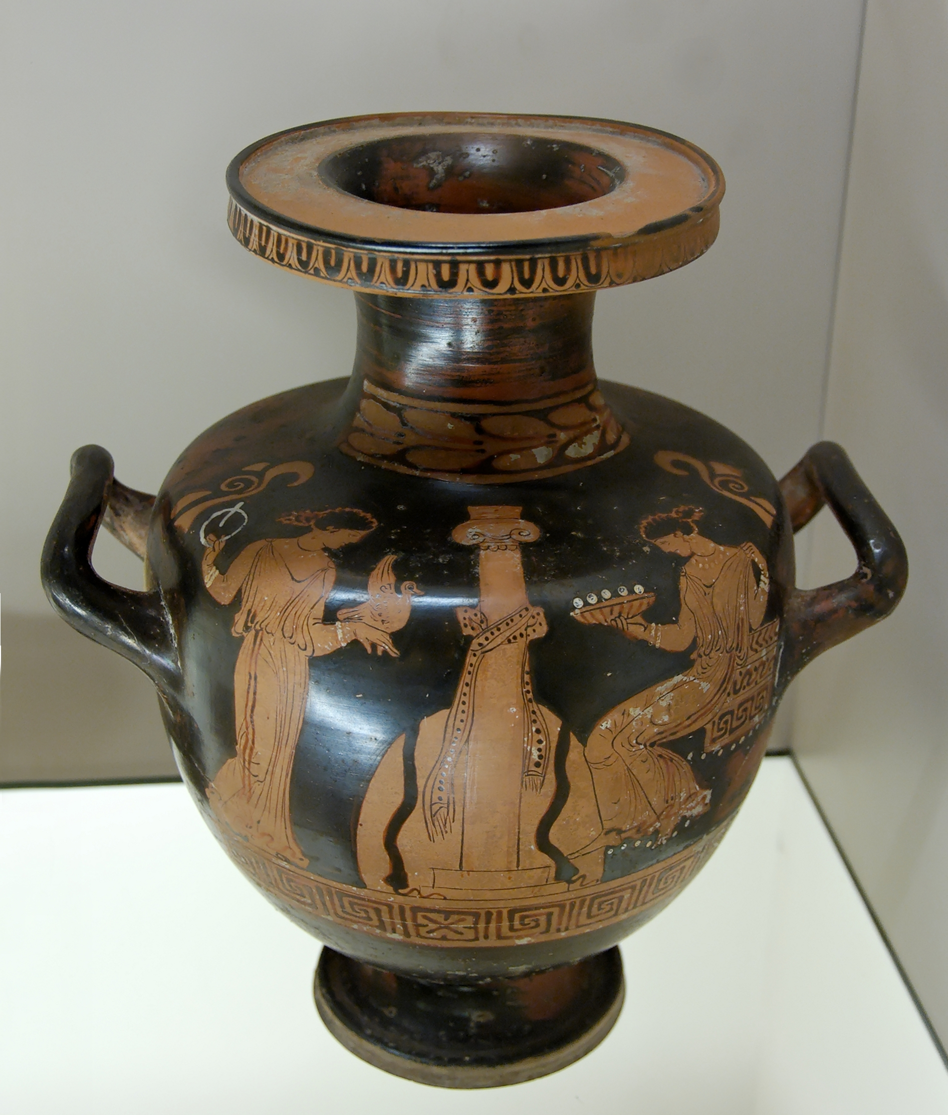 Two women bringing offerings to a tomb. Apulian red-figured hydria, ca. 360–350 BC. From Cyrenaica.